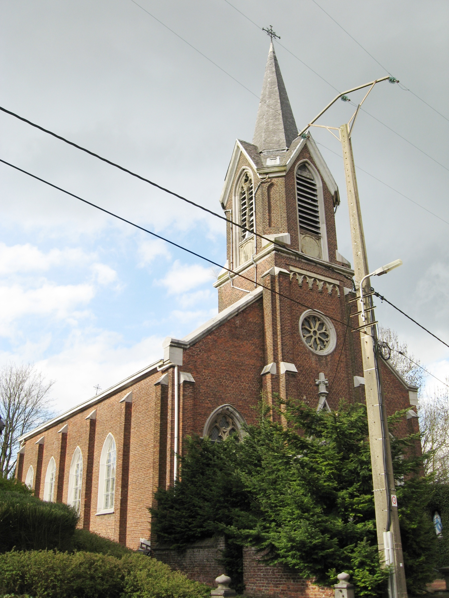 Church of Saint Severinus in Odeur, Crisnée, Liège, Belgium